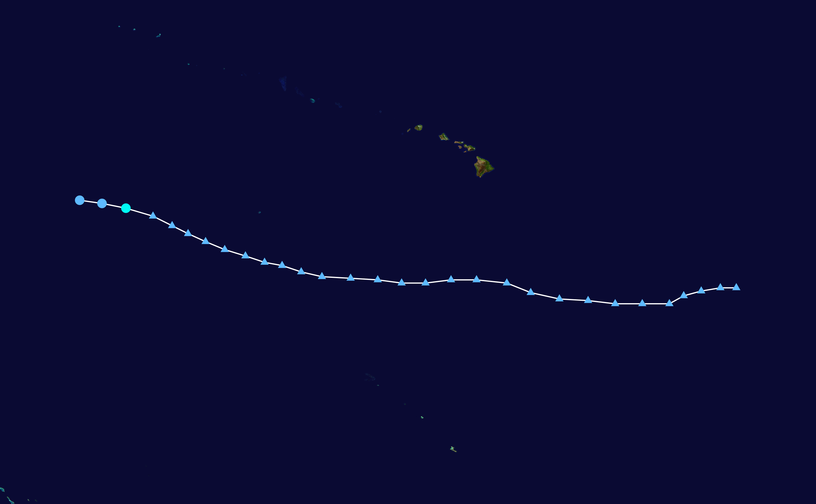 Track map of Tropical Storm Unala of the 2013 Pacific hurricane season and the 2013 Pacific typhoon season. The points show the location of the storm at 6-hour intervals. The colour represents the storm's maximum sustained wind speeds as classified in the Saffir–Simpson scale (see below), and the shape of the data points represent the nature of the storm, according to the legend below. Saffir–Simpson scale Tropical depression≤38 mph≤62 km/h Category 3111–129 mph178–208 km/h Tropical storm39–73 mph63–118 km/h Category 4130–156 mph209–251 km/h Category 174–95 mph119–153 km/h Category 5≥157 mph≥252 km/h Category 296–110 mph154–177 km/h Unknown Storm type Tropical cyclone Subtropical cyclone Extratropical cyclone / Remnant low / Tropical disturbance / Monsoon depression